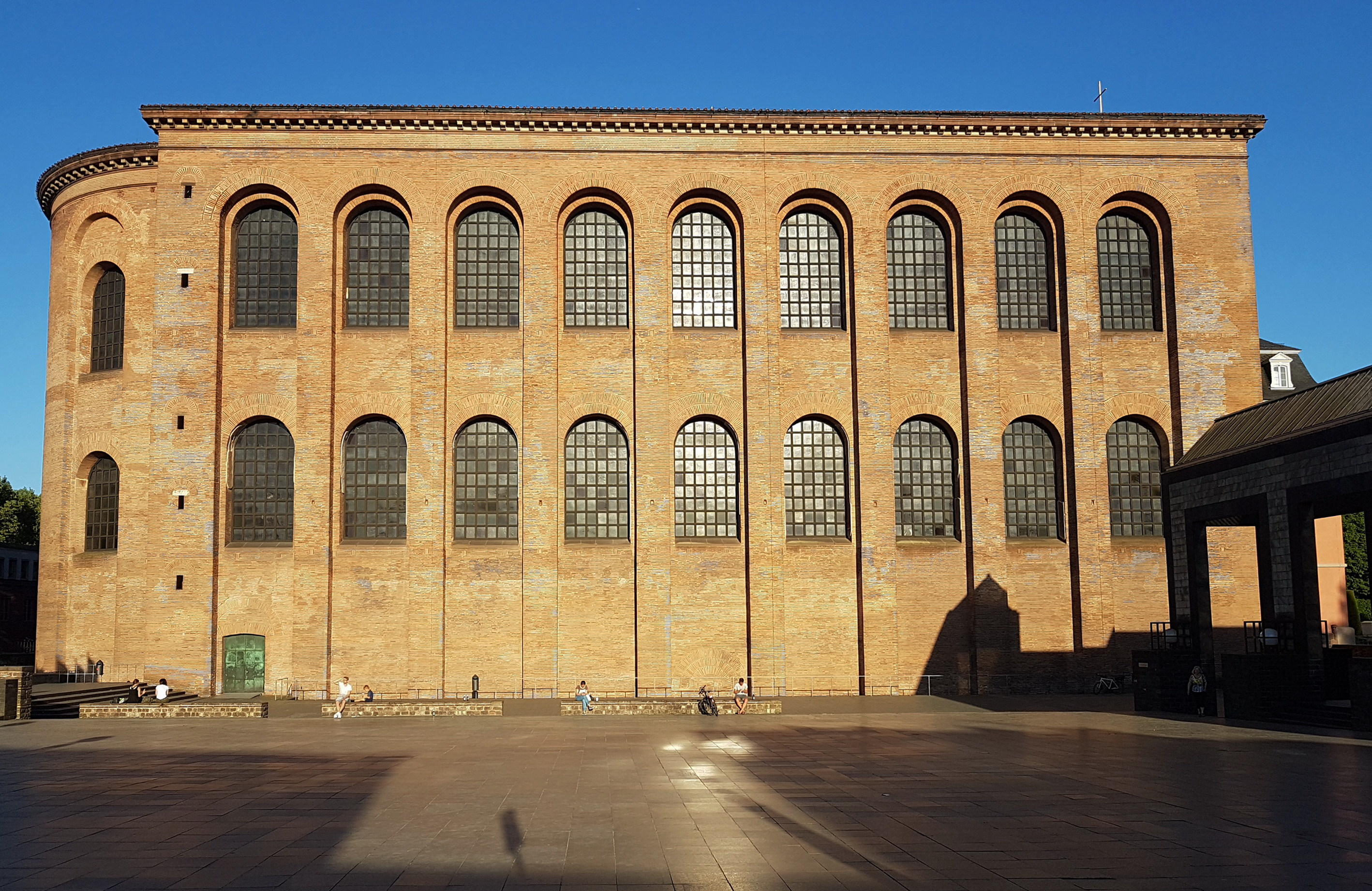 View of the Basilica of Constatine in Trier, Germany. This large Roman building was once the throne hall of Constantine the Great, who had it built around 310 AD as part of his palace. It is now a Protestant church.